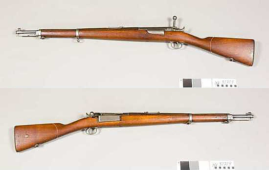 Danish M1889 Krag-Jørgensen carbine. Caliber 8x58mmR. From the collections of Arm\emuseum (Swedish Army Museum), Stockholm.